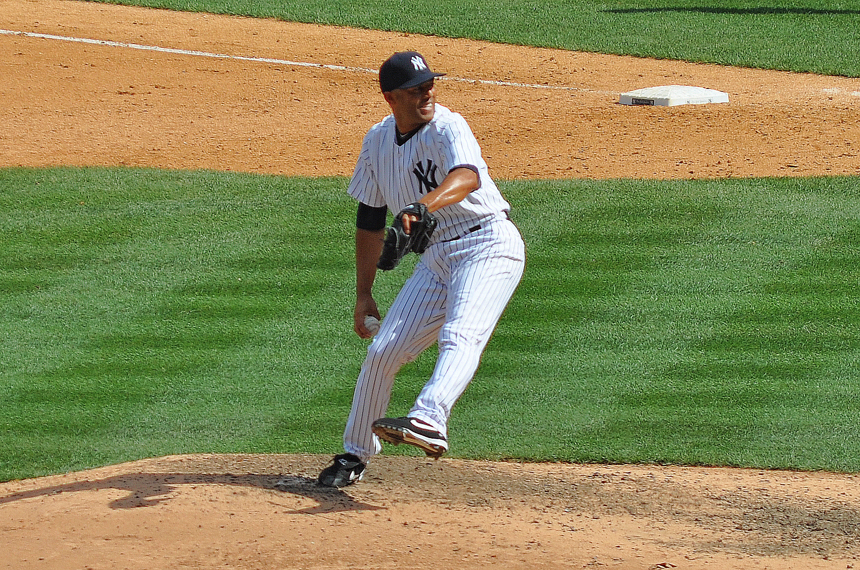 Mariano Rivera closing out a game against the Baltimore Orioles on July 31, 2011.